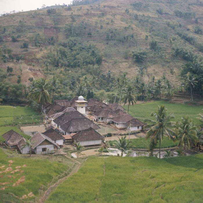 View over a village near Cicalengka